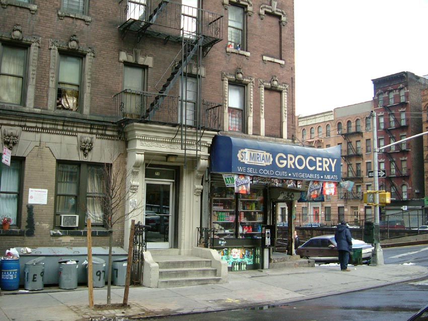 Léon & Mathilda's apartment building in Luc Besson's movie The Professional (Léon), on the Northwest corner of E 97th Street and Park Avenue, New York City.